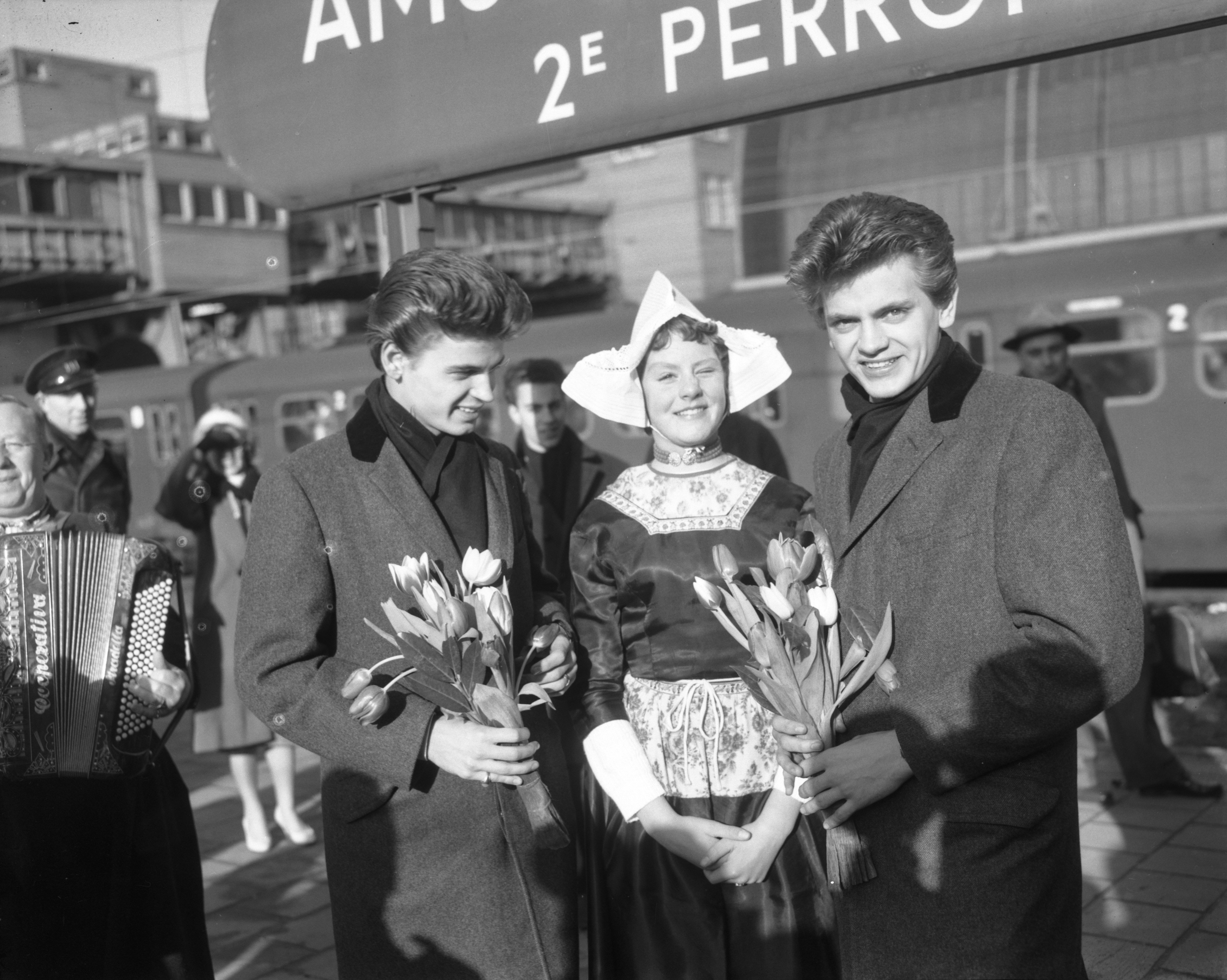 From left to right: Don Everly, Volendam girl, Phil Everly. Amsterdam Central Railway Station. 24 January 1959